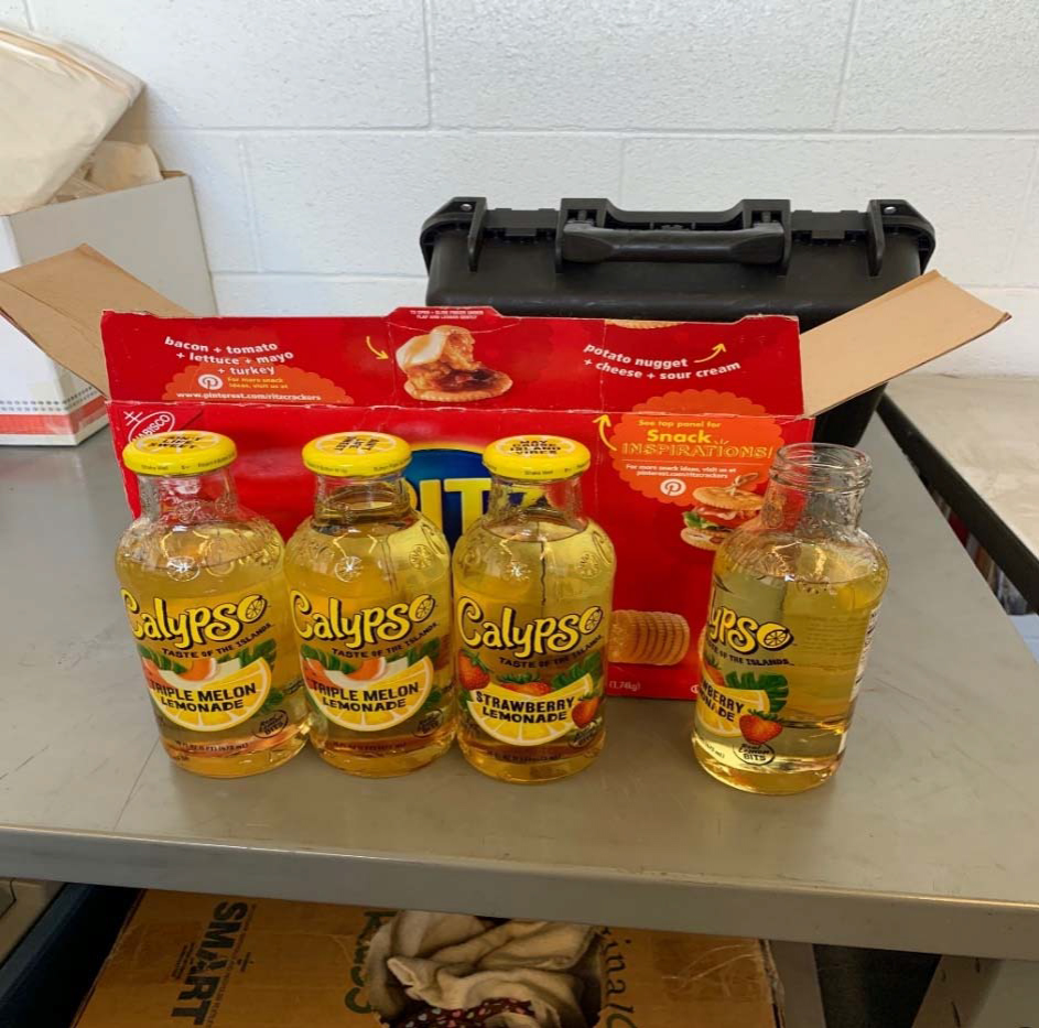 Molotov cocktails allegedly carried by Boogaloo movement individuals Parshall, Lynman, and Loomis in 2020